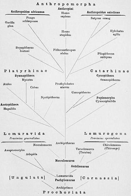 Primate family tree, 1895 Systematische phylogenie